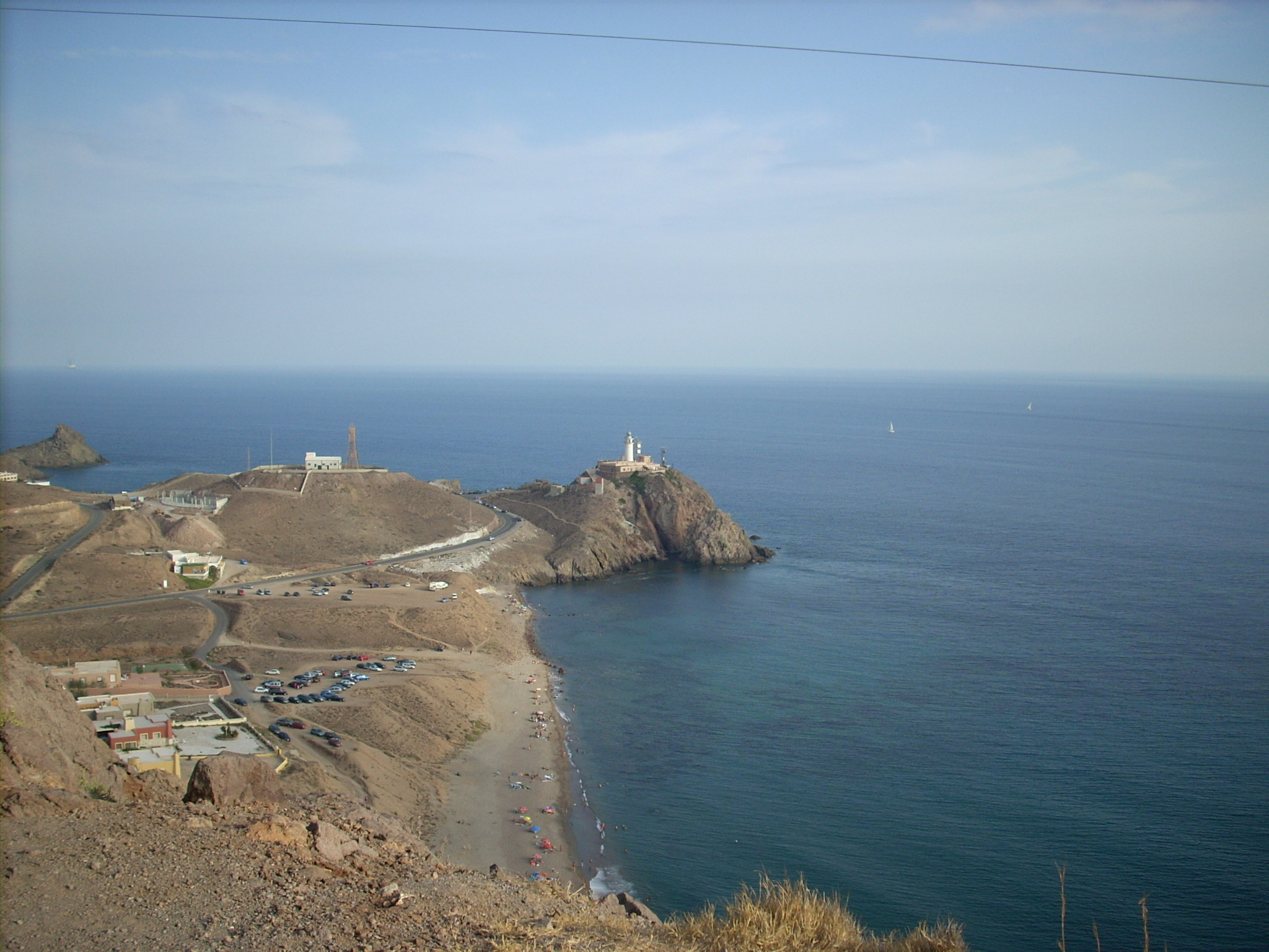 Panoramic view of Cape Gata, Almeria (Almeria - SPAIN)